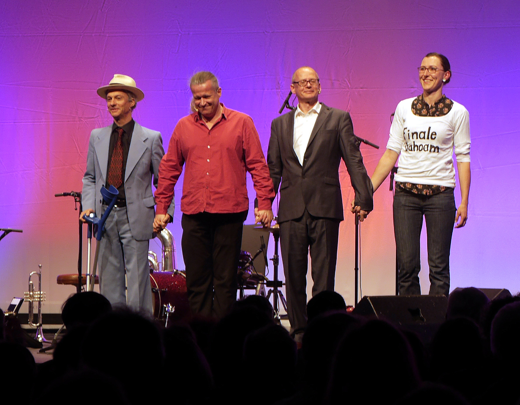 Salzburg Bull Award winners 2013